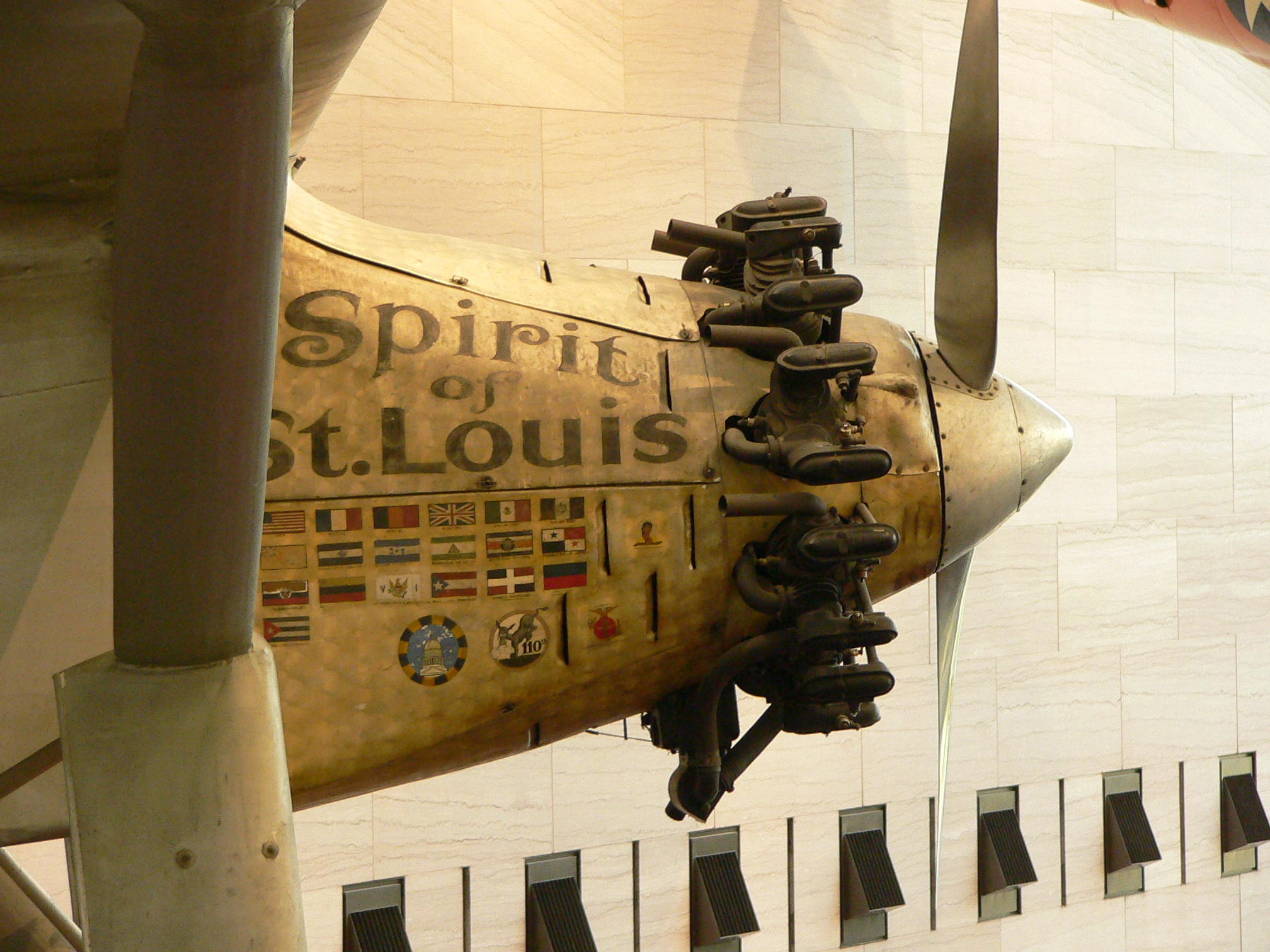 Spirit of St. Louis aircraft. Pictures taken by Raul654 around Washington DC on May 7, 2005.